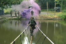 USMA cadets during summer training at Camp Buckner, NY.